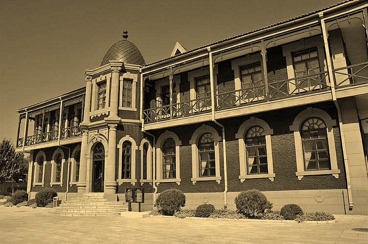 Qinmin building of former Manchukuo Palace, Changchun, China